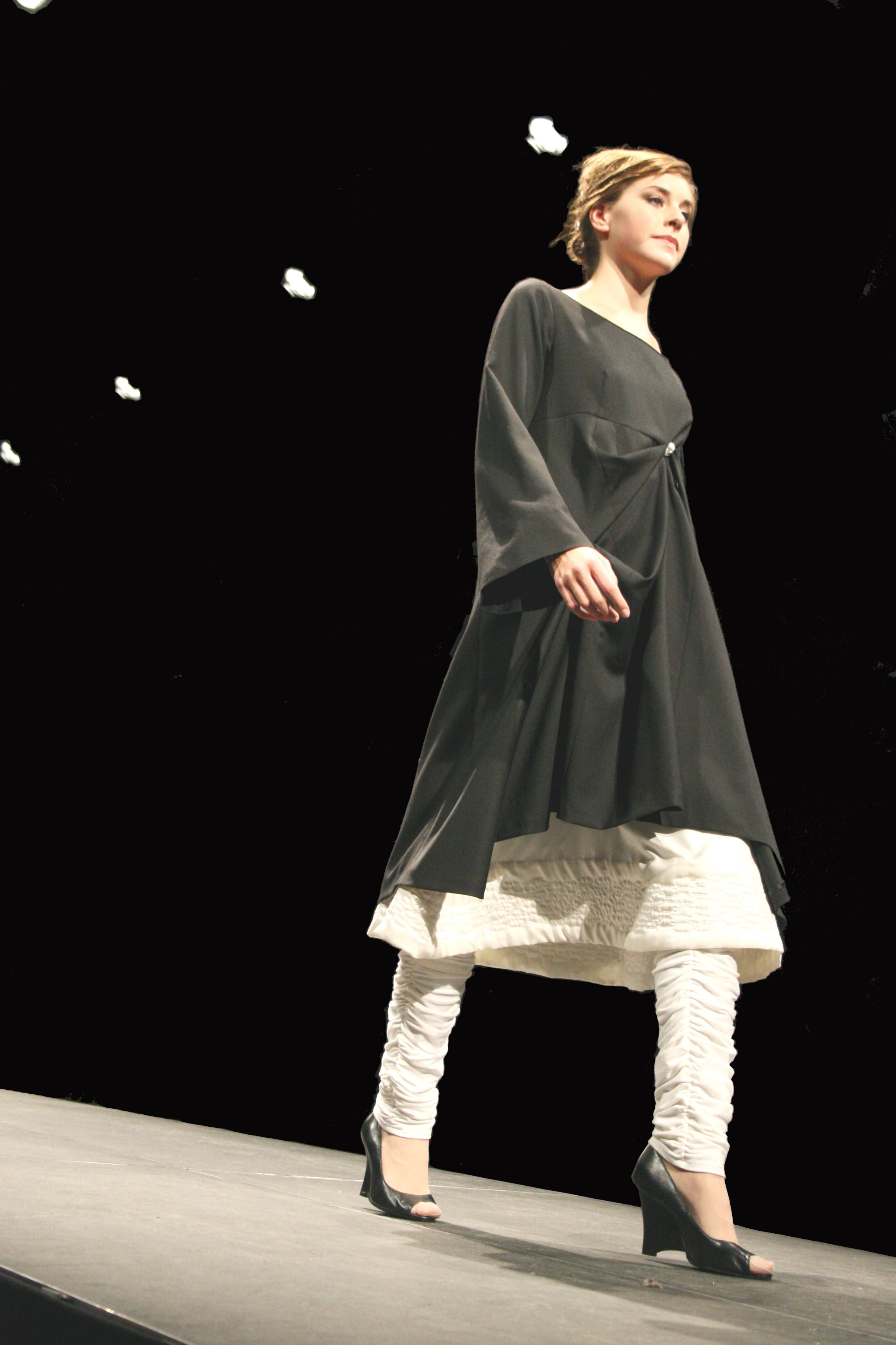 Black wool dress lined with silk. Hand quilted white silk underskirt. Vintage glass buttons. Dress can be worn with dress buttoned or unbuttoned. Cotton/lycra rouched leggings. By Chwynyn. Shoes supplied by Umeboshi, Vancouver. Photo by Erik Benediktson.